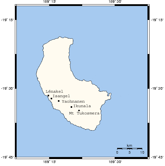 A map from Tanna with location of the places mentioned in the article of fr. wikipedia "Culte du prince Philip"